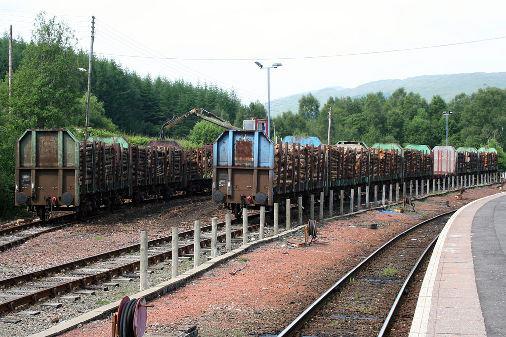 Title:- Timber Wagons being loading at Crianlarich. Date:- 19 July 2006 Photographer:- Stewart D. Macfarlane